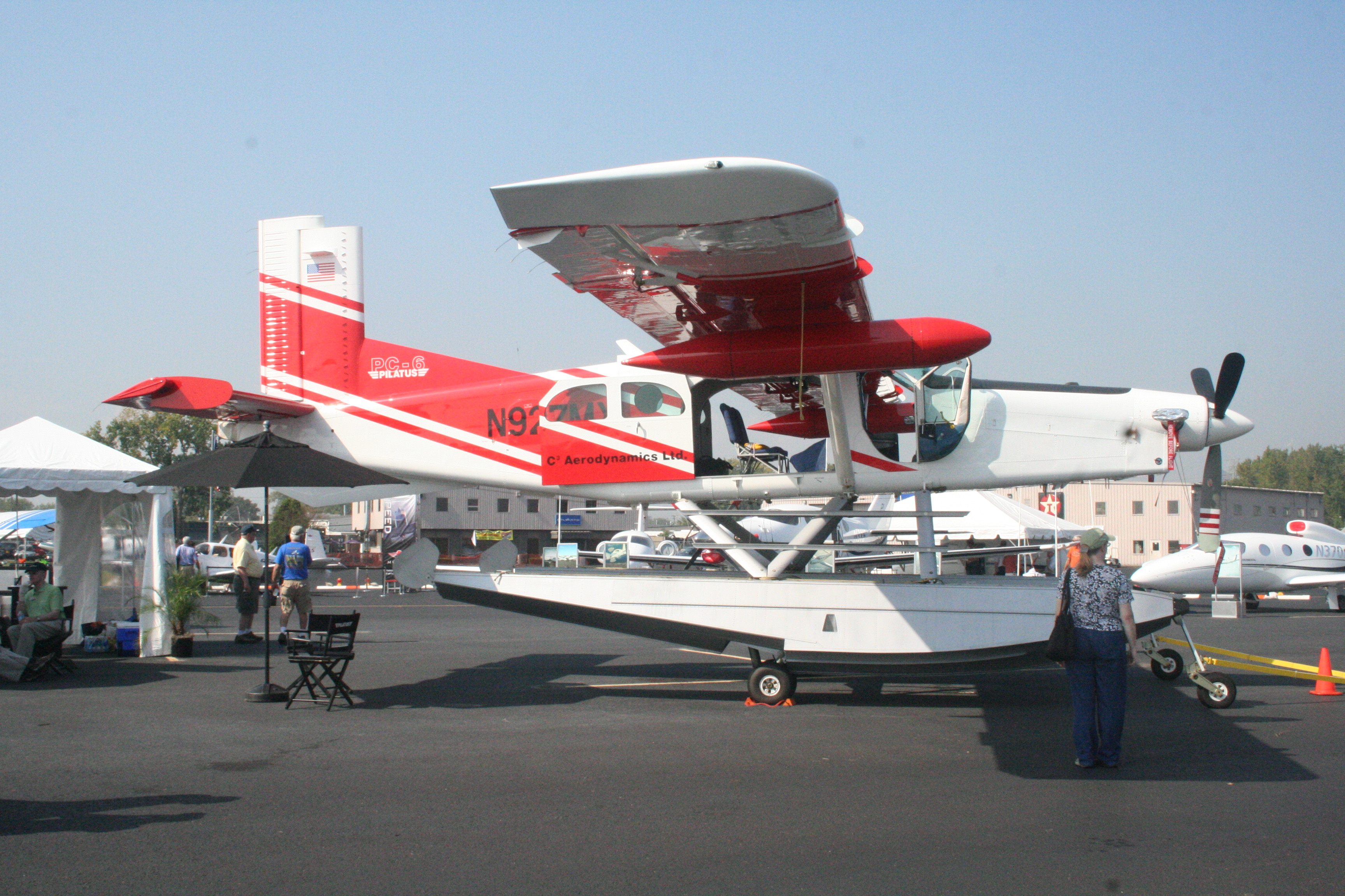 Pilatus PC-6 Turbo-Porter on amphibious floats.